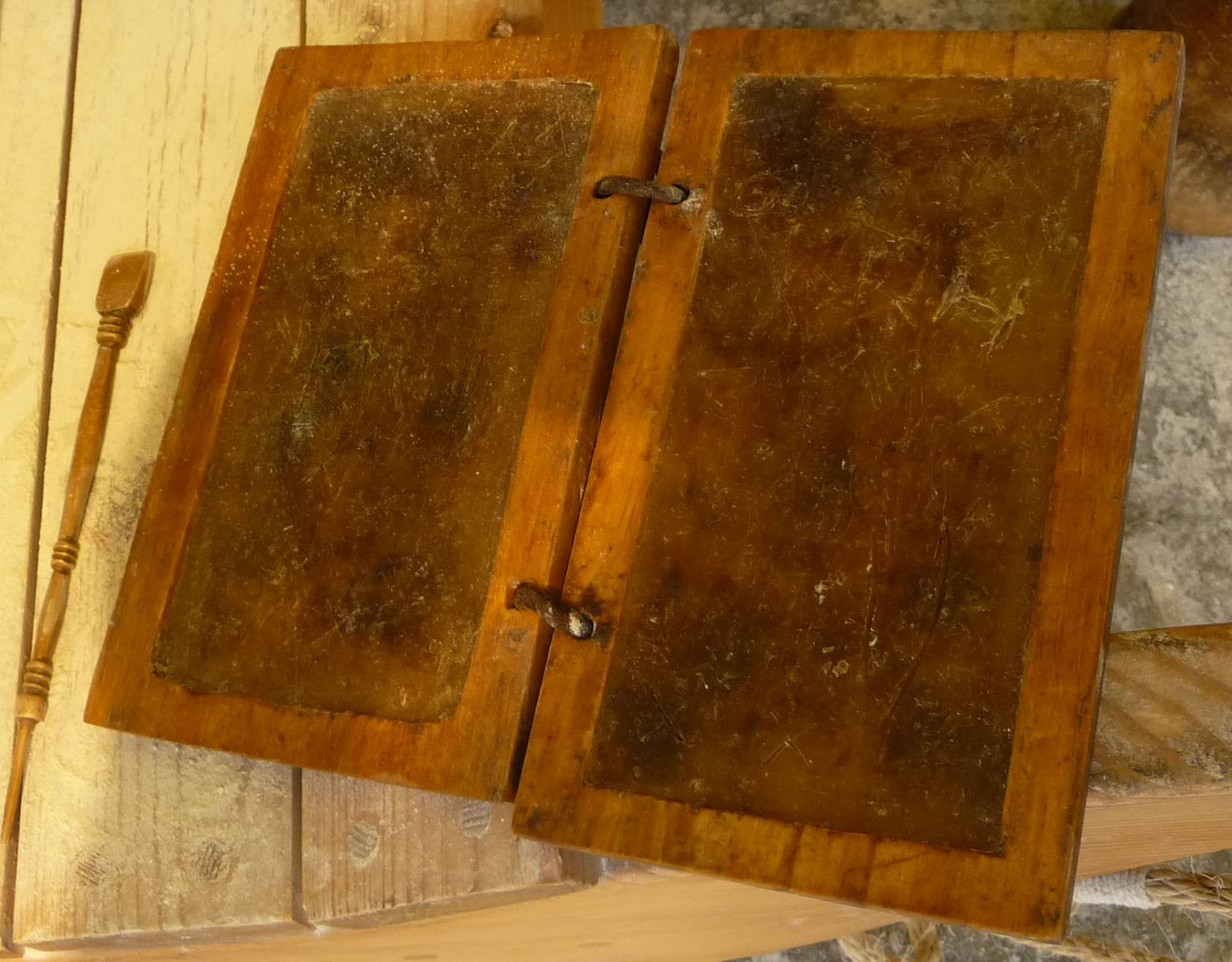 Writing instruments